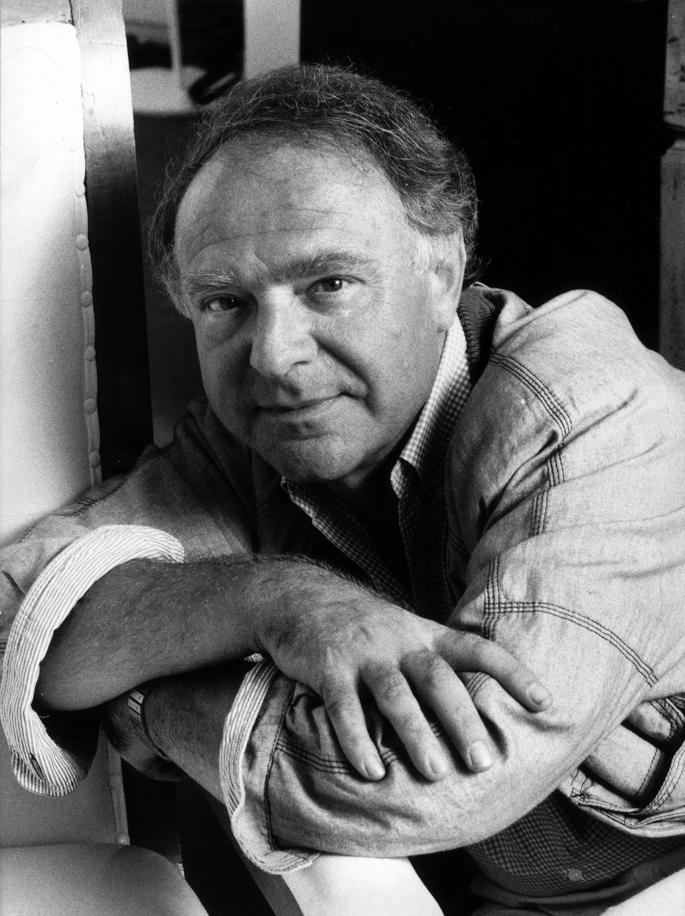 Italian author Alberto Bevilacqua.